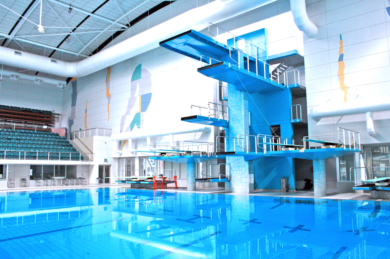 Indoor Swimming Pool with Diving Platform and Springboards